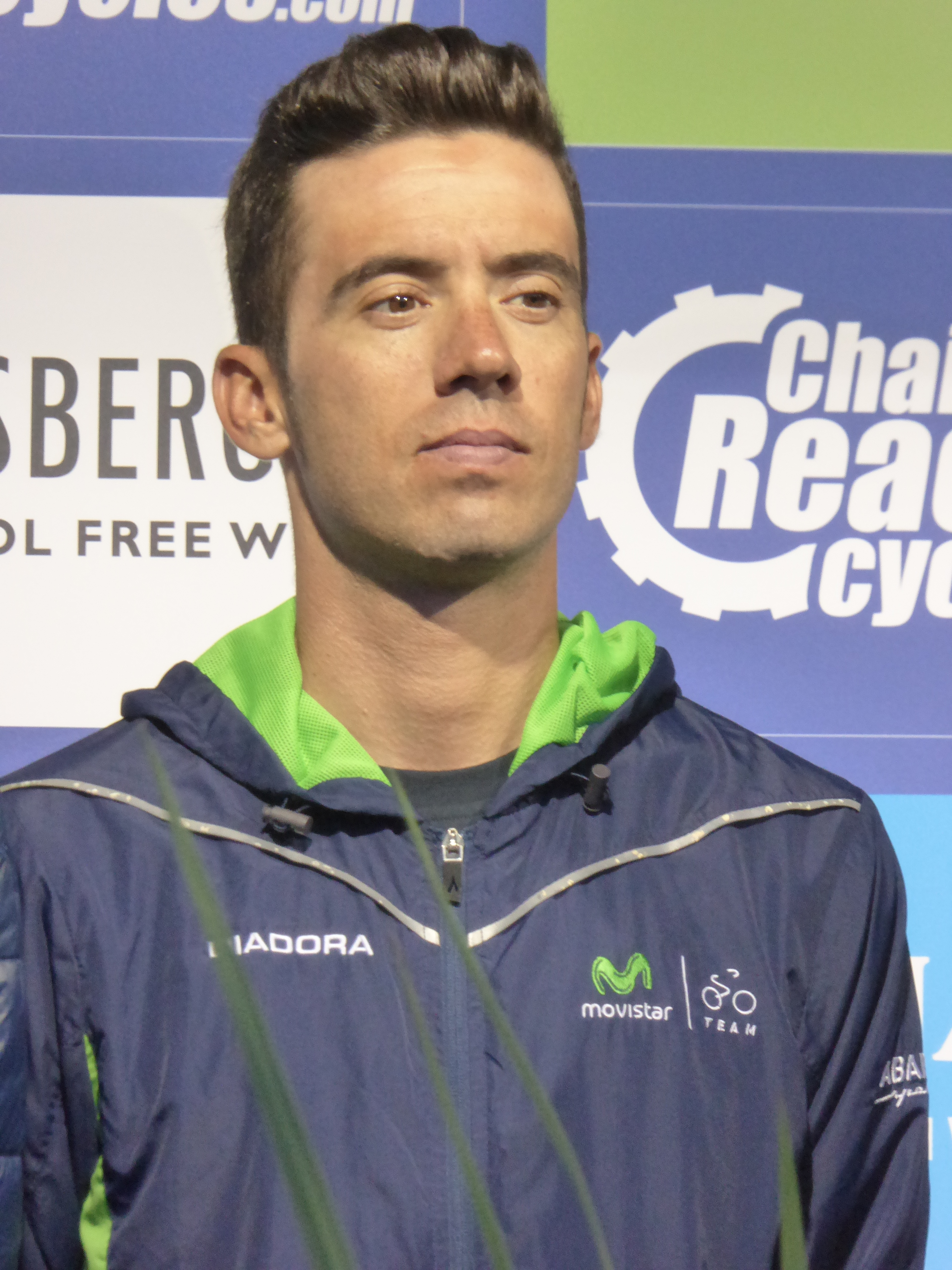 Javier Moreno (Movistar Team), pictured at the 2016 Tour of Britain team presentation in Glasgow on 3 September 2016.